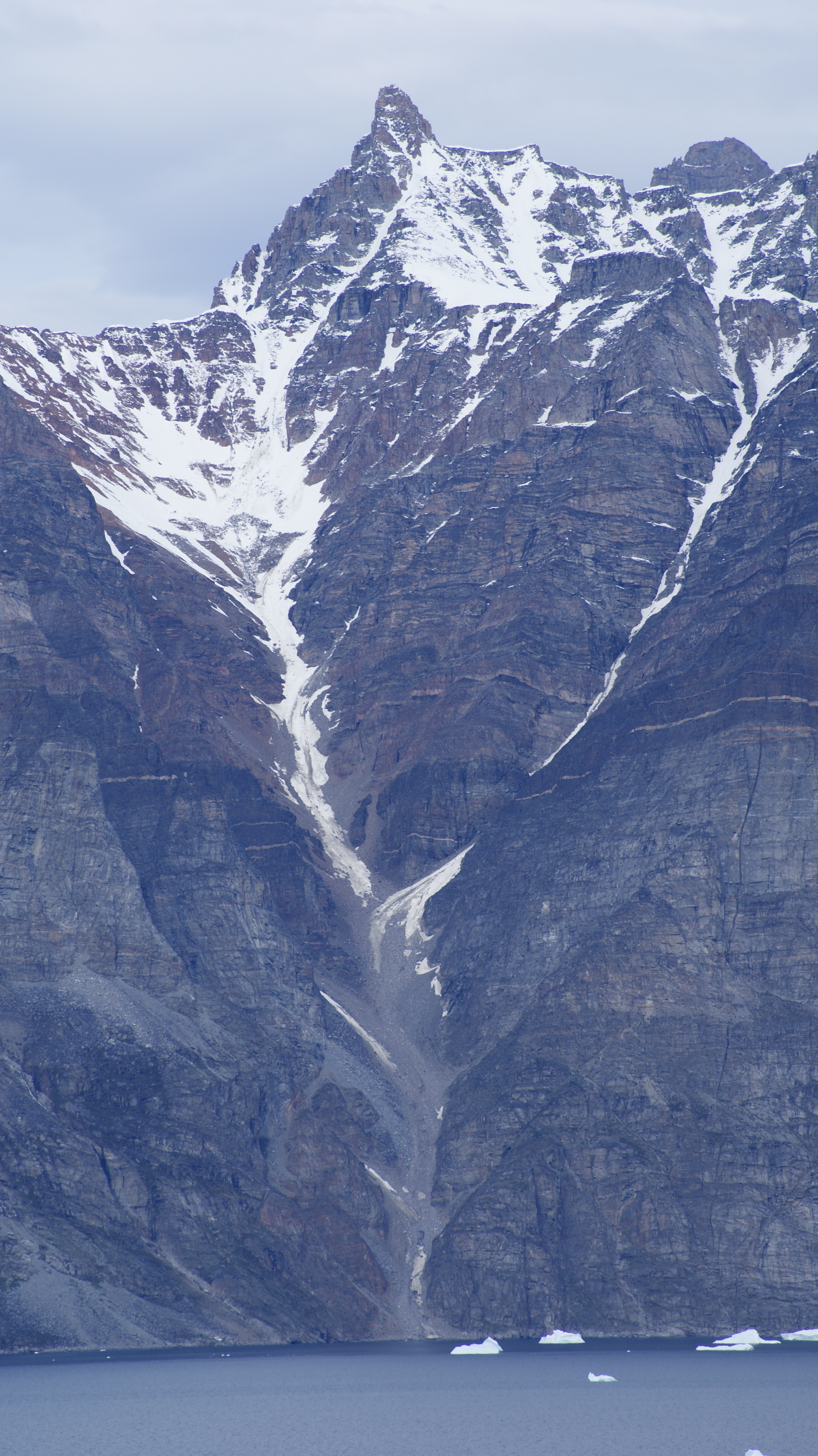 Enormous, 1922-metre wall falling into the Perlerfiup Kangerlua fjord, northeast of Ukkusissat in northwestern Greenland.